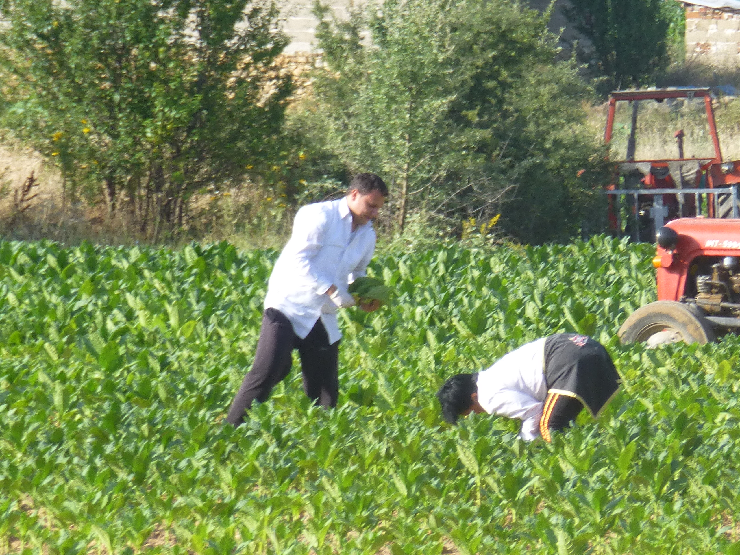 Views from Macedonian Hwy P1305, around Lopatica (between Demir Hisar and Bitola)